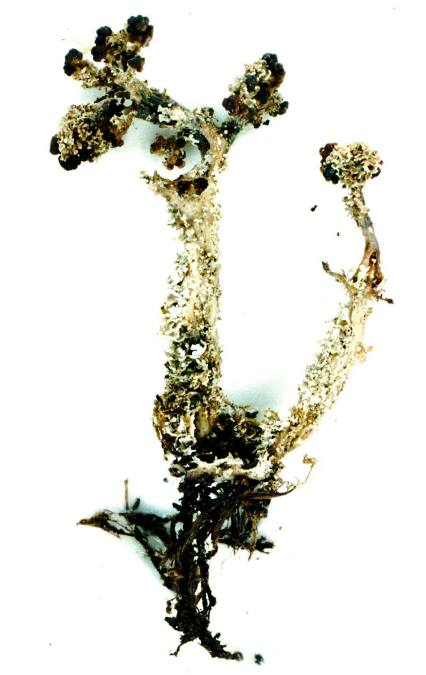 Cladonia squamosa Hoffm., 1796 Photograph of a herbarium specimen. Cladonia squamosa was growing on soil along the Little Cape Point Trail at Great Wass Island in Washington County, Maine, USA. Collected by E.C. Uebel, and identified by D.H.S. Richardson (No. U-210, 14 Jun 2001).